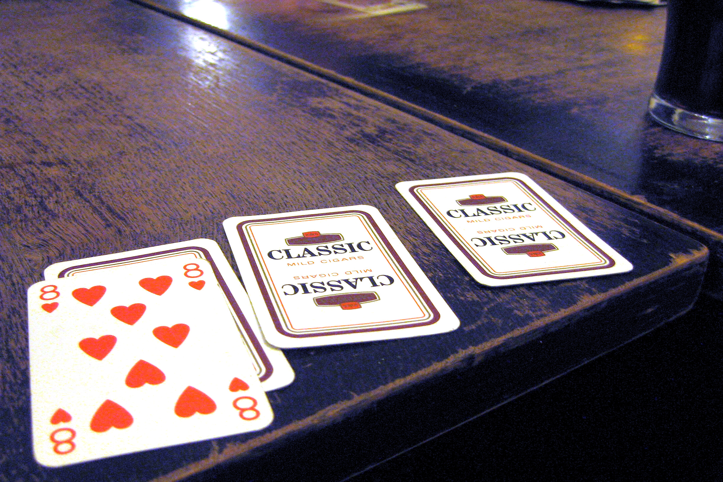 The layout of cards during a game of shithead.